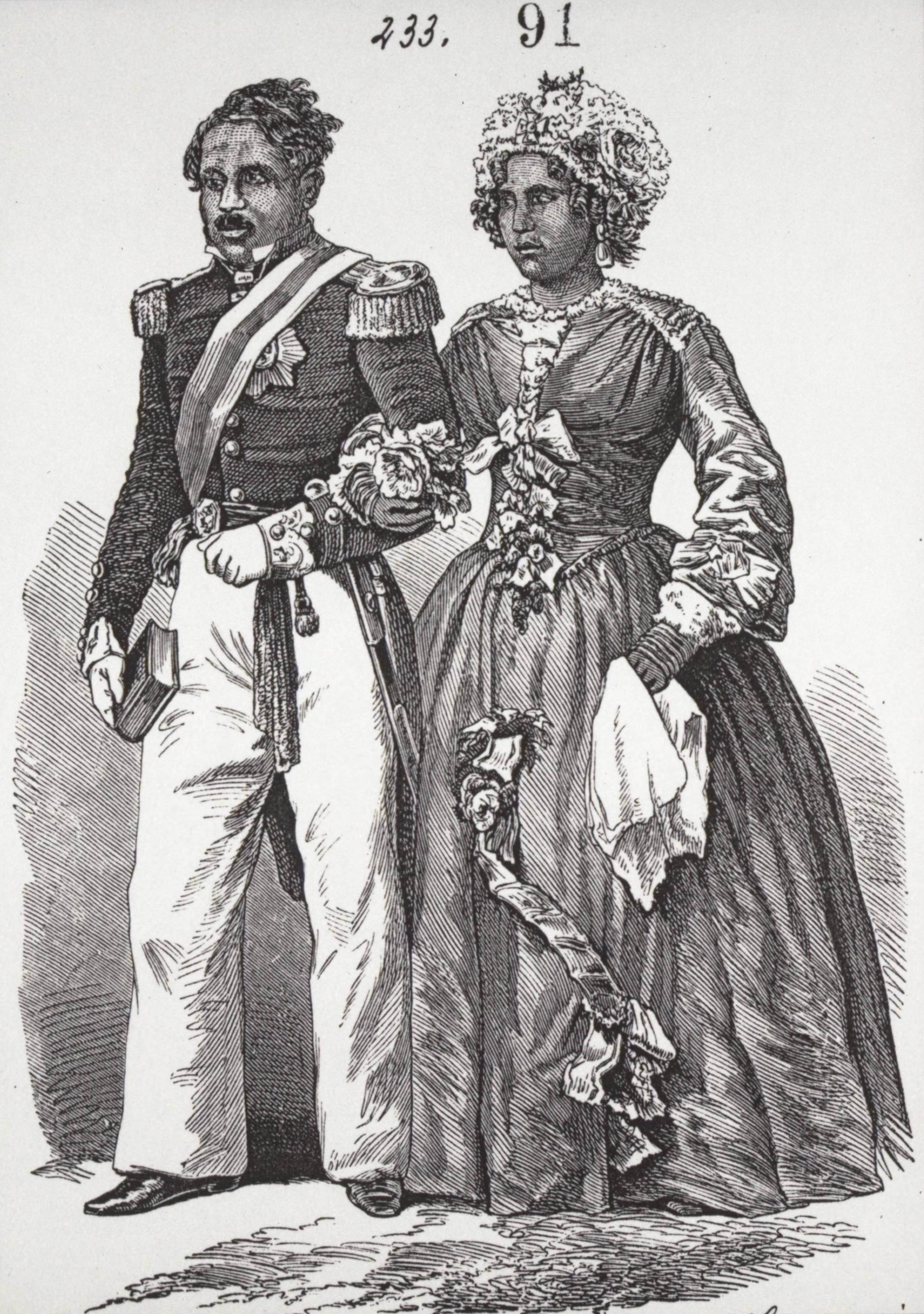 Engraving of the future King Radama II and his wife, Rabodo (future Queen Rasoherina) while they were still prince and princess by LMS missionary William Ellis.